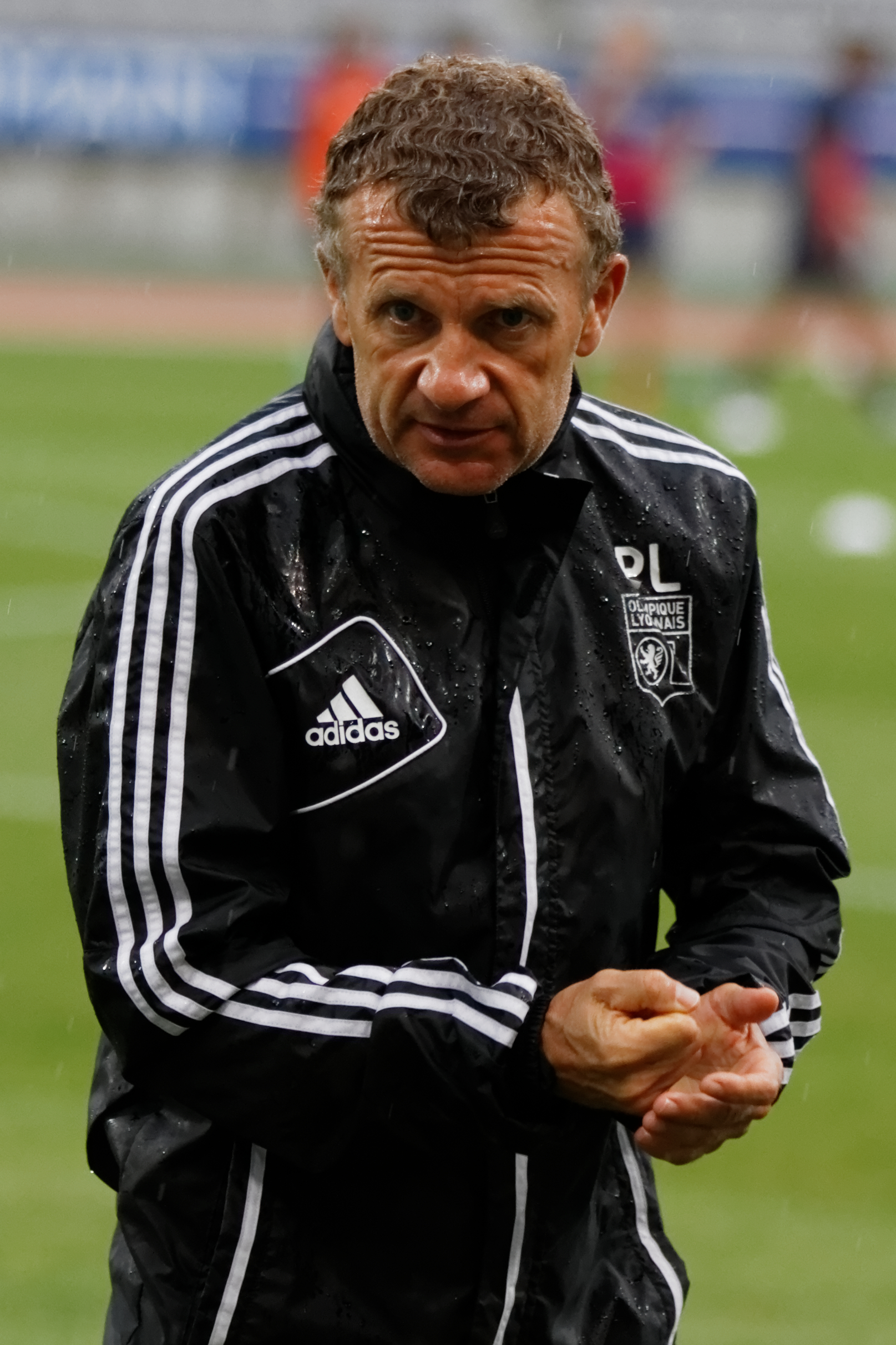 PSG-Lyon, September 29th, 2013.